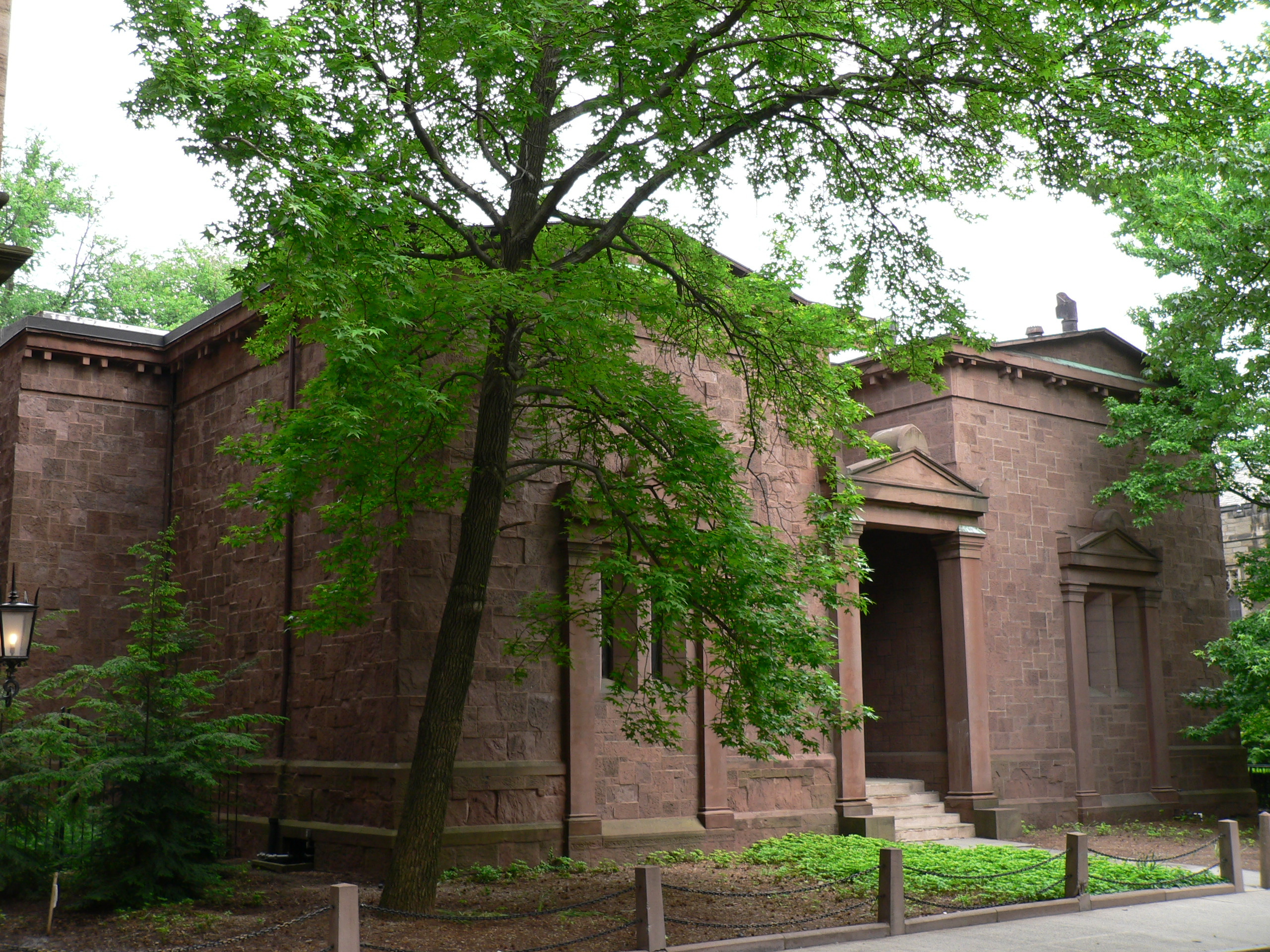 I took this photo of the historic Yale Skull & Bones Society tomb, from an angle to show a corner and different vantage.